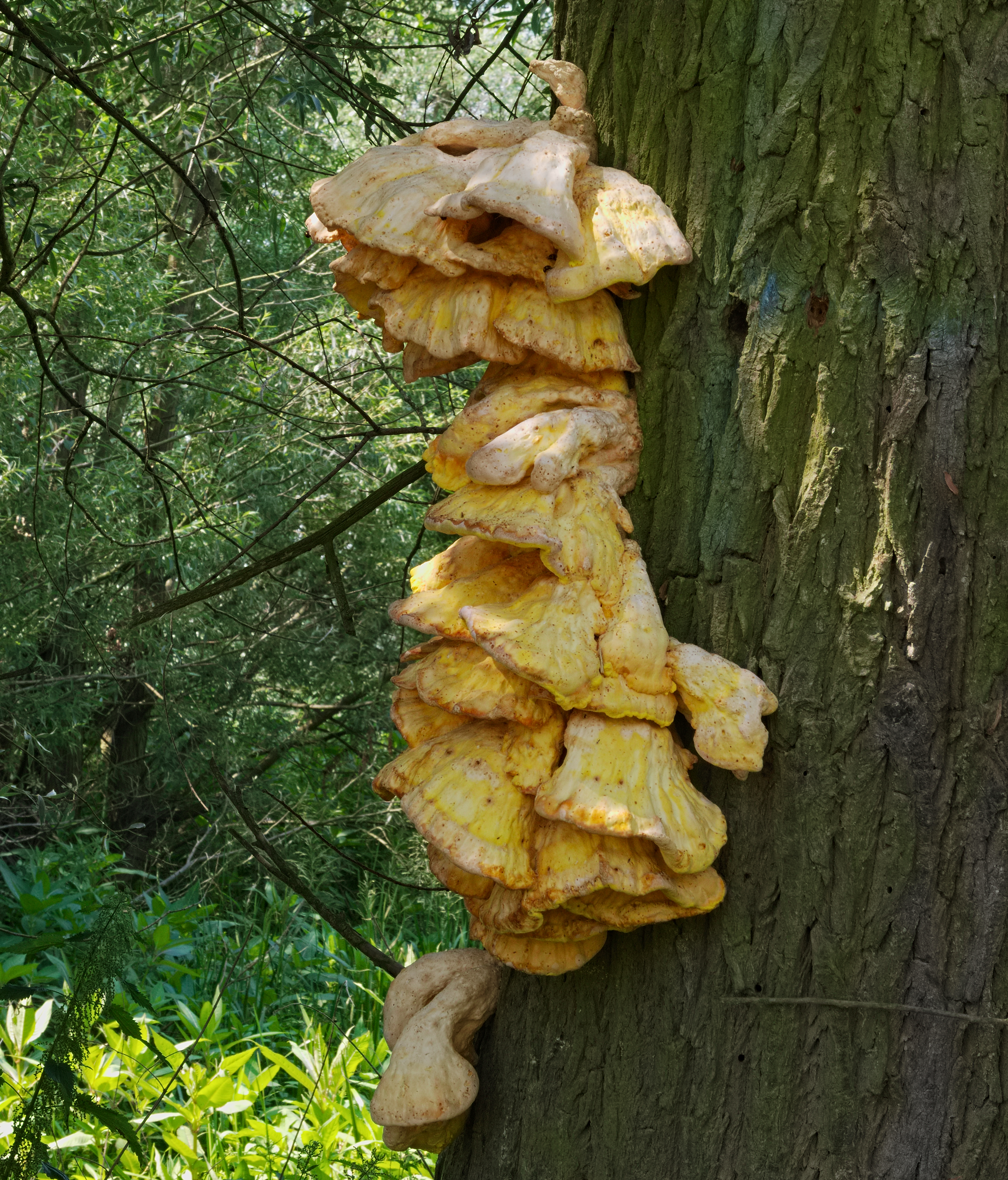 Sulphur polypore - Laetiporus sulphureus. Taken in Eilenburg-Ost (East), Saxony, Germany.